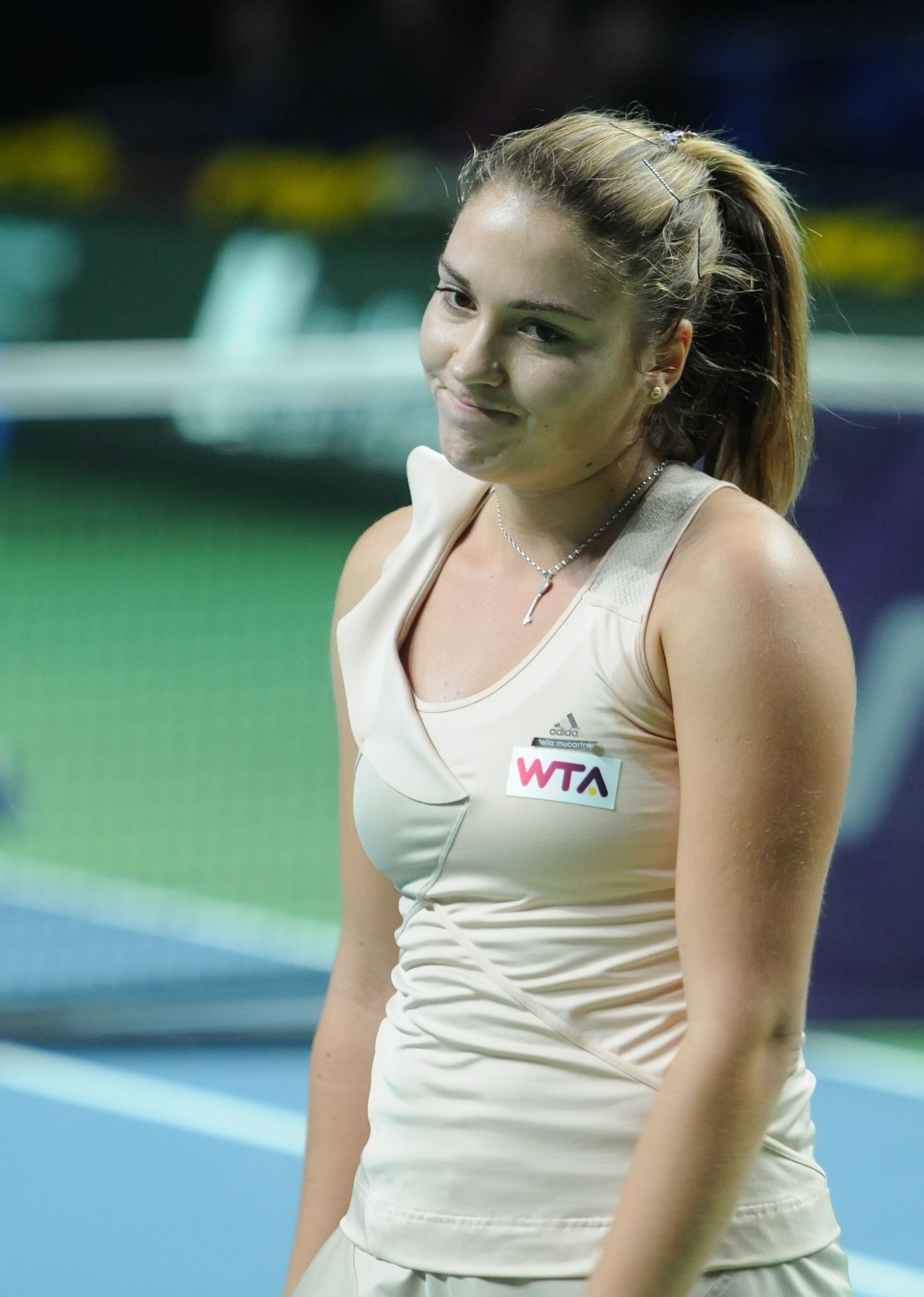 Natela Dzalamidze at the 2014 Kremlin Cup